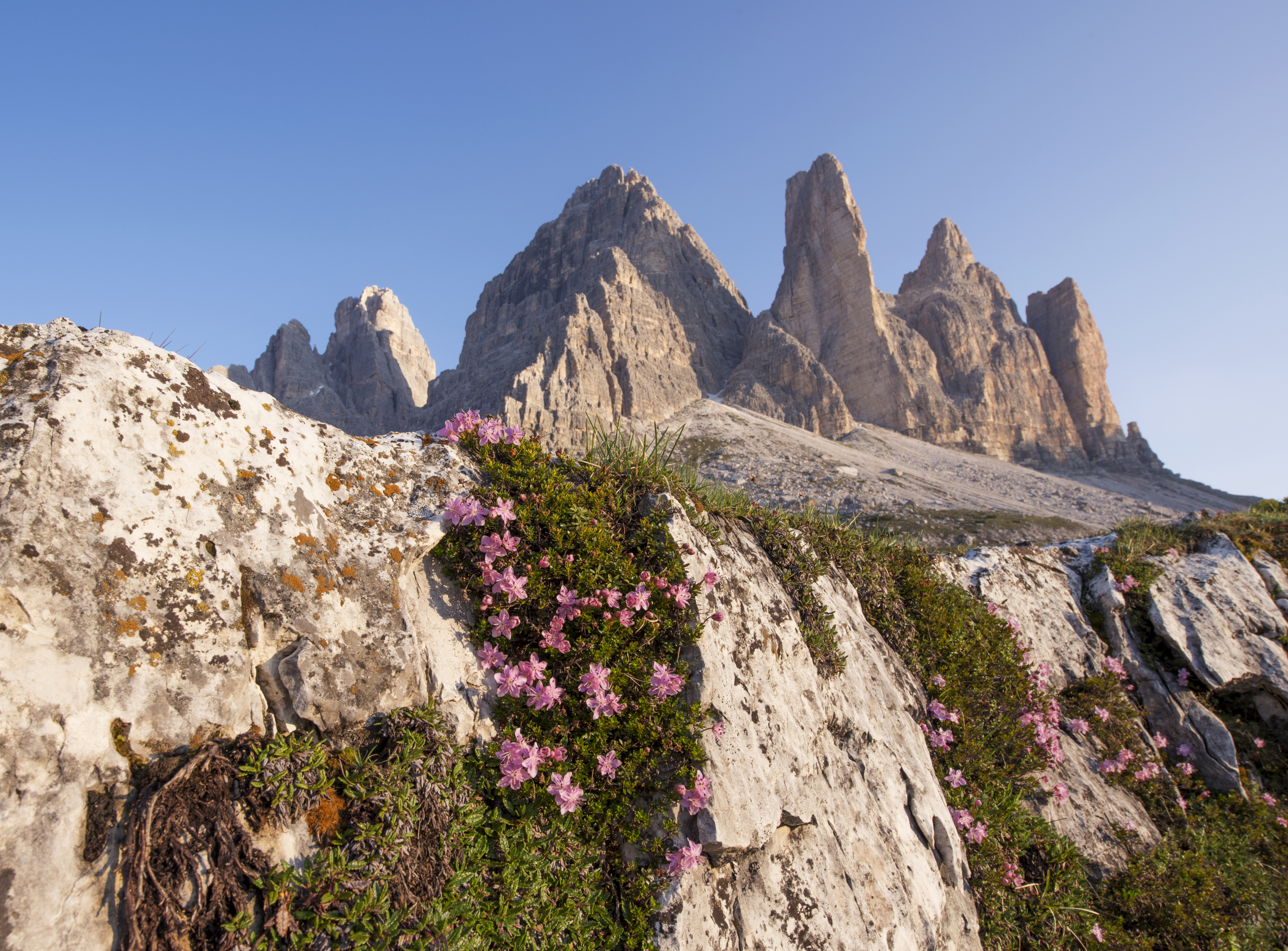 Flowers of the Dolomites.